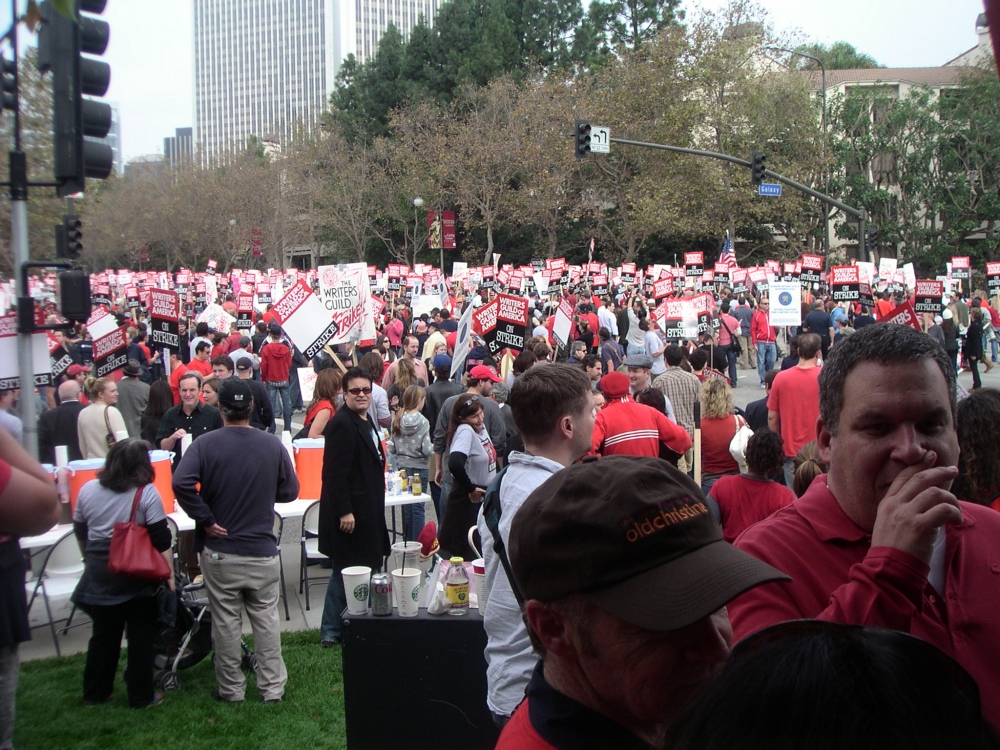 I created this image myself at the WGA rally in Culver City on Fri, Nov 9 2007 and I am releasing it to the public domain. Have fun, world.